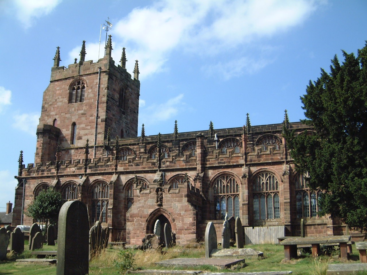 Photograph of St Boniface Church at Bunbury, Cheshire, taken by me ca. 2000